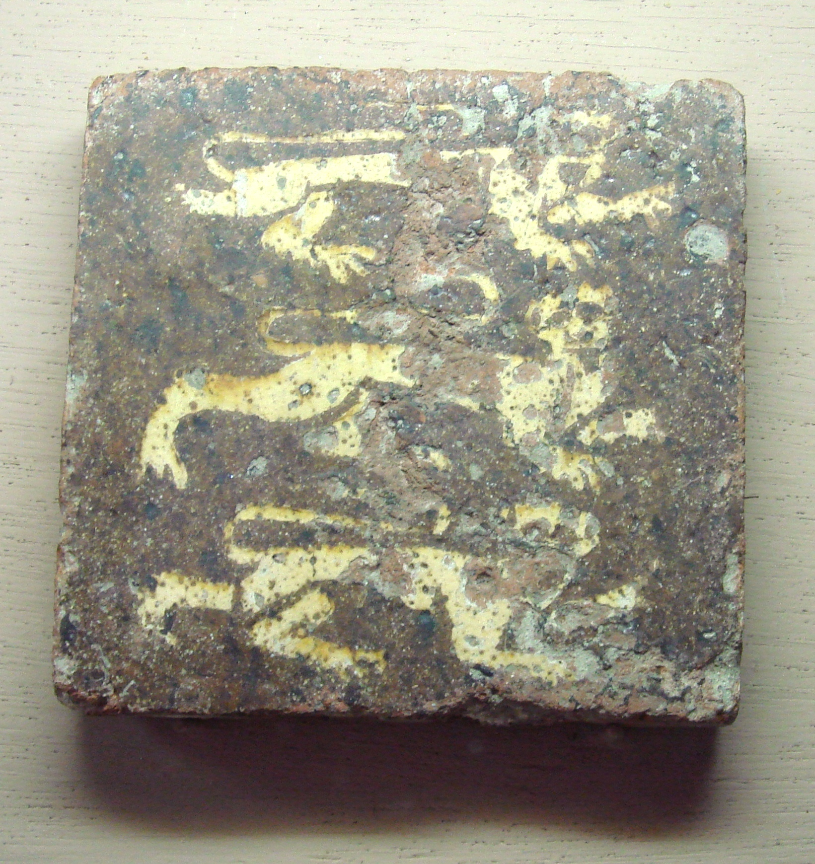 Vauclerc_castle_tile_13th_14th_century with English lions.